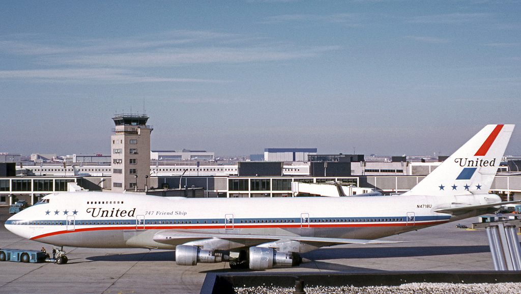 Boeing 747-122 N4718U of United Airlines at Chicago O'Hare in 1973